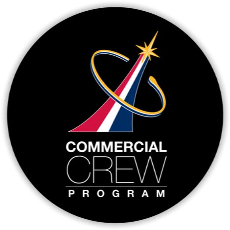 Emblem displayed at the end of the Commercial Crew Program: Near-Term Strategy presentation and displayed in front of the panel members.